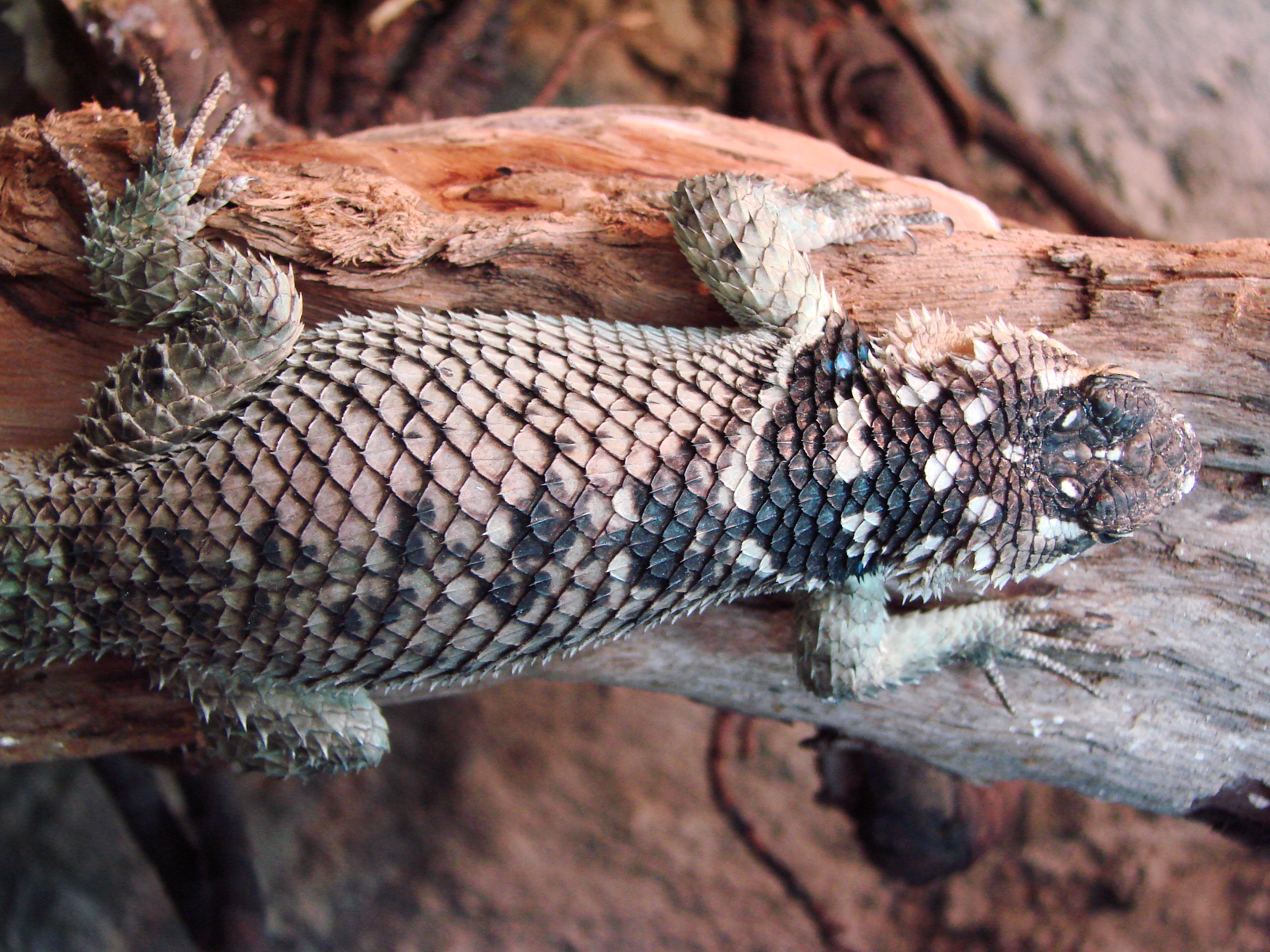 Picture taken in the zoo of Wrocław (Poland): Sceloporus cyanogenys' (Cope, 1885)